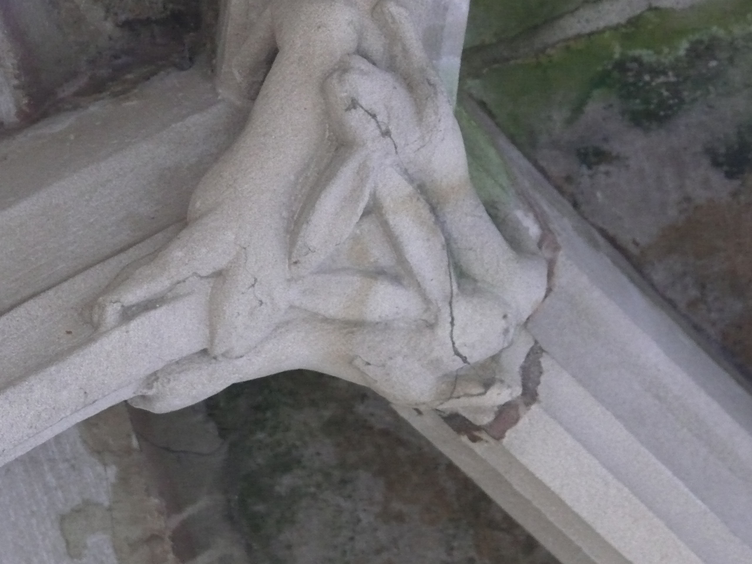 Keystone under the balcony of the "Maison du cardinal Jouffroy" in Luxeuil-les-Bains, Haute-Saône, France